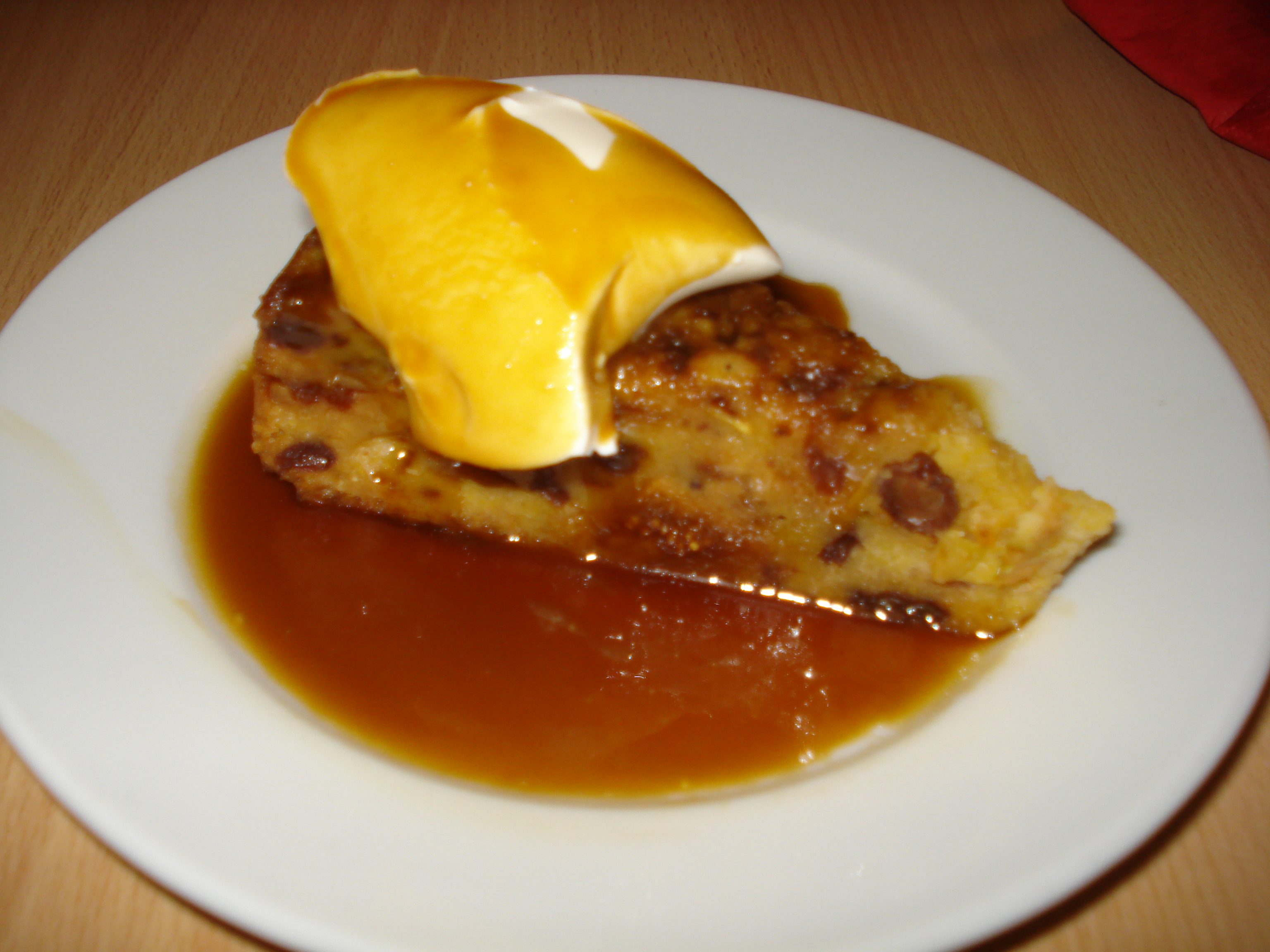 Bustrengo prepared with polenta, apple, fig and toffee. 'Amore Dogs', Edinburgh